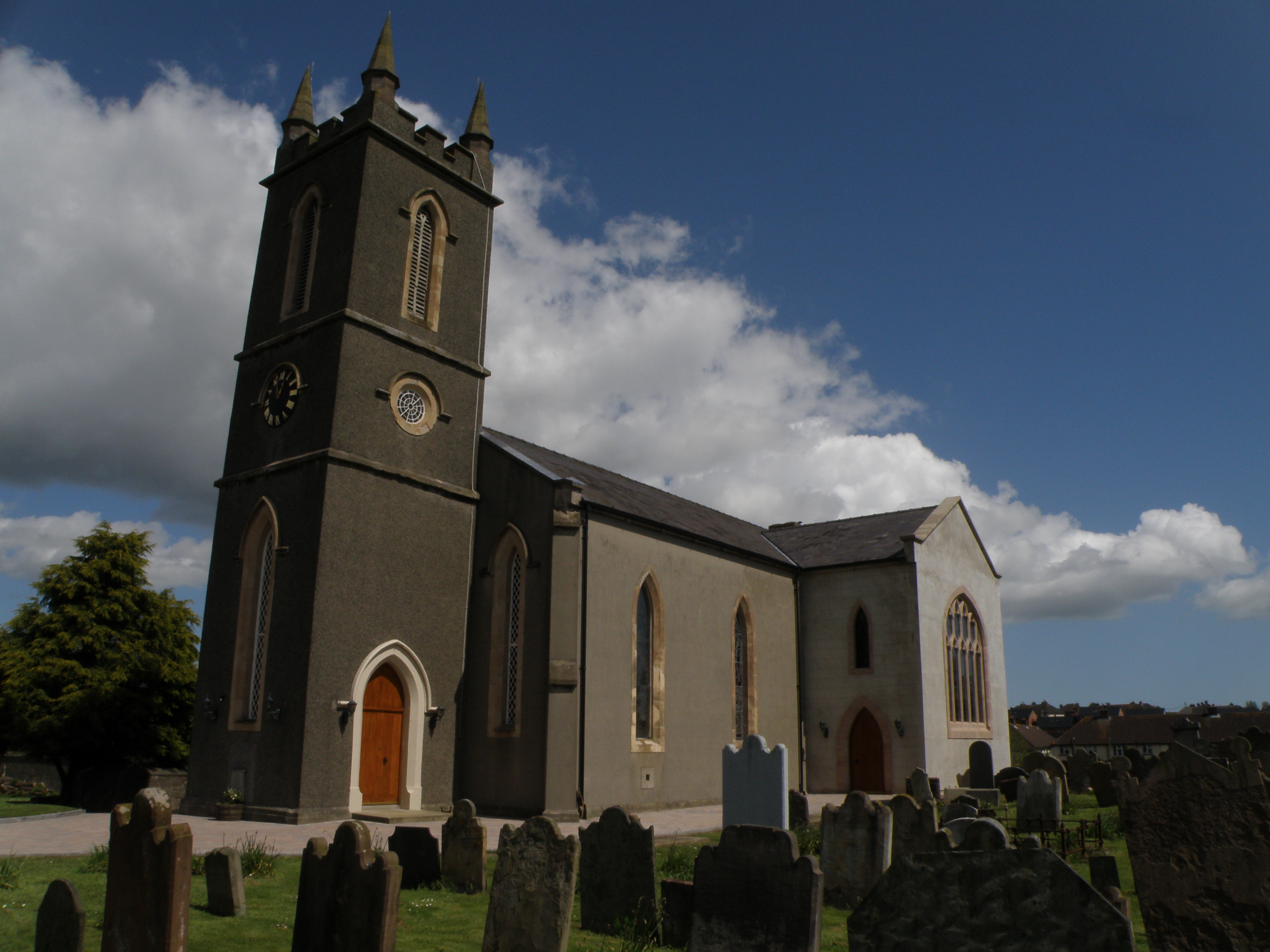 The exterior of St. Mary's Parish Church, Comber, Northern Ireland, showing the South Transept.